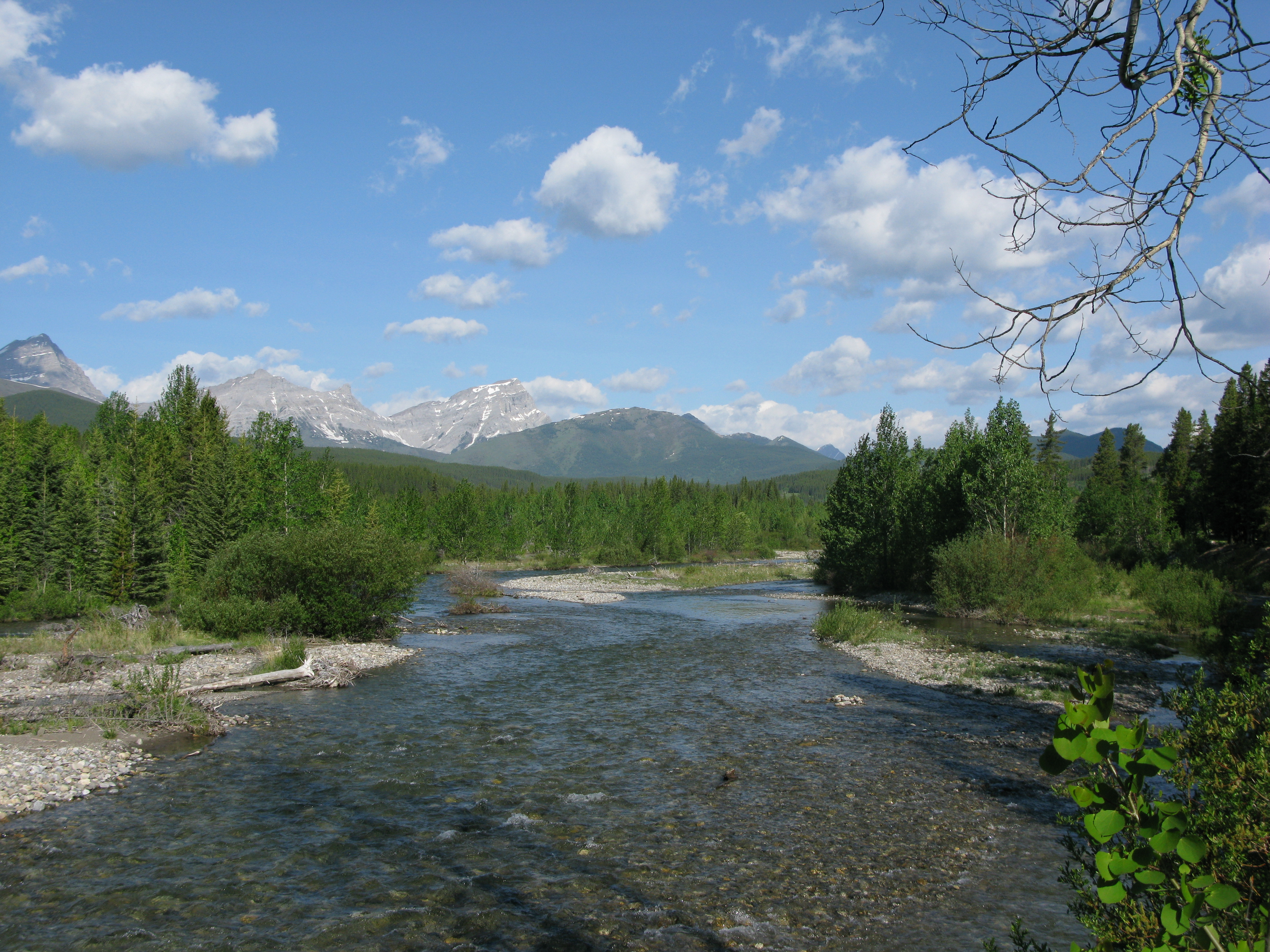 Highwood River, near Highwood Pass, in Kananaskis Country, Alberta.